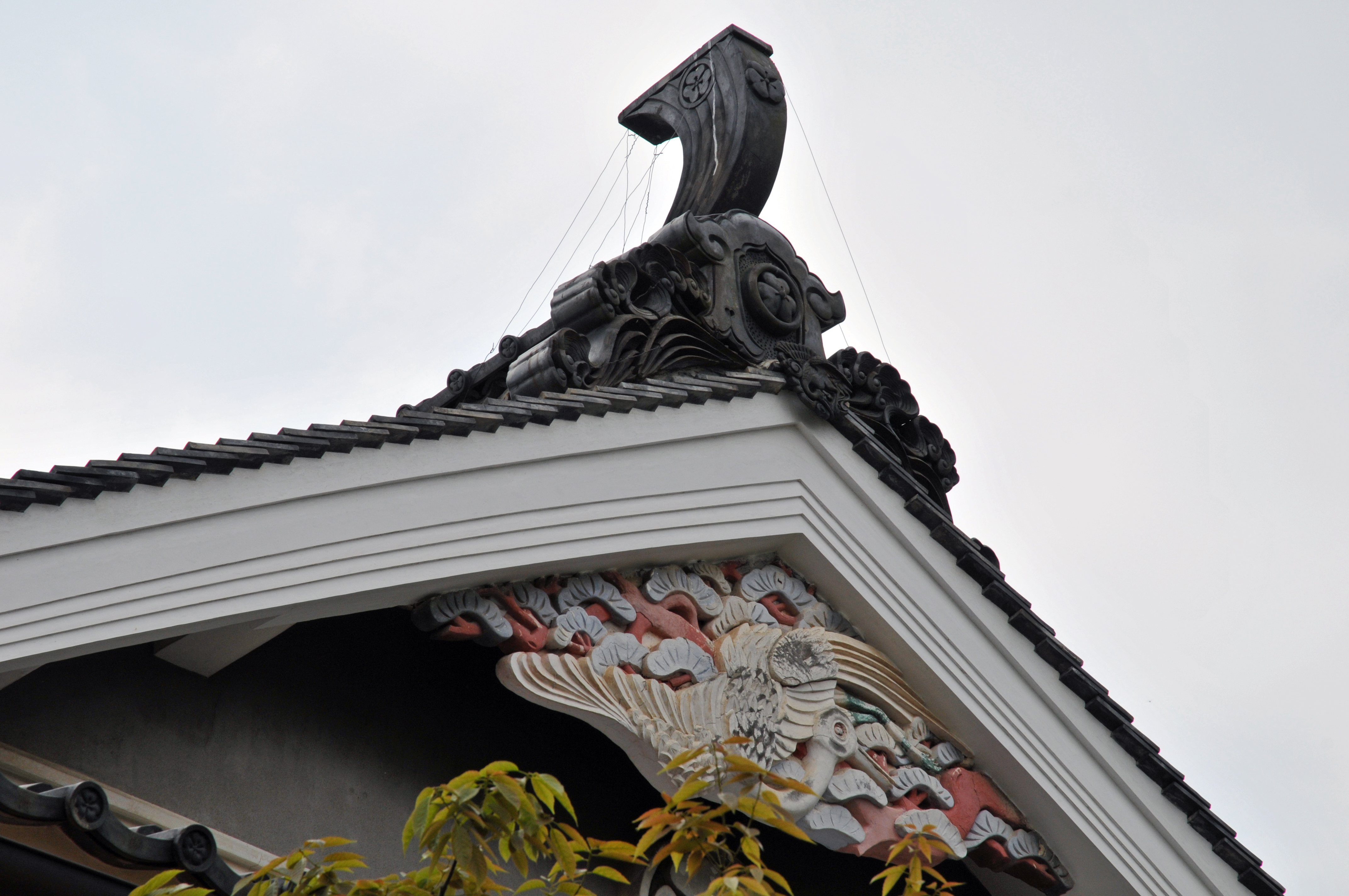 Gegyo (gable pendant) of Hon-haga residence, Yōkaichi-Gokoku, Uchiko Town, Ehime, Japan